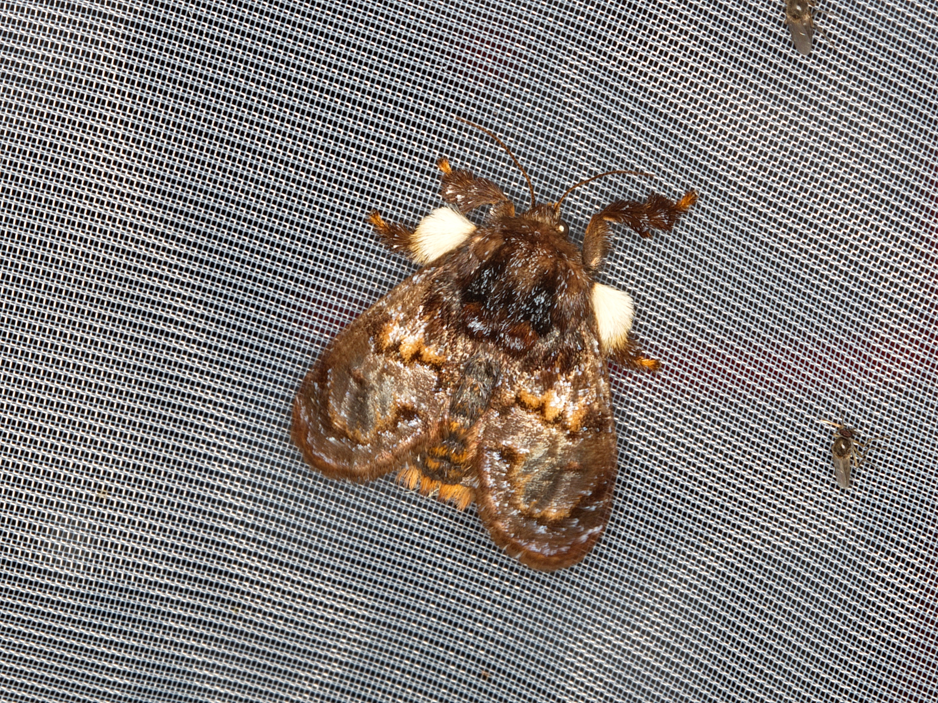 Phobetron pithecium (Smith, 1797), to actinic light and LepiLED, Natural Area Teaching Laboratory, University of Florida, Gainesville, Florida, USA, 1 October 2018